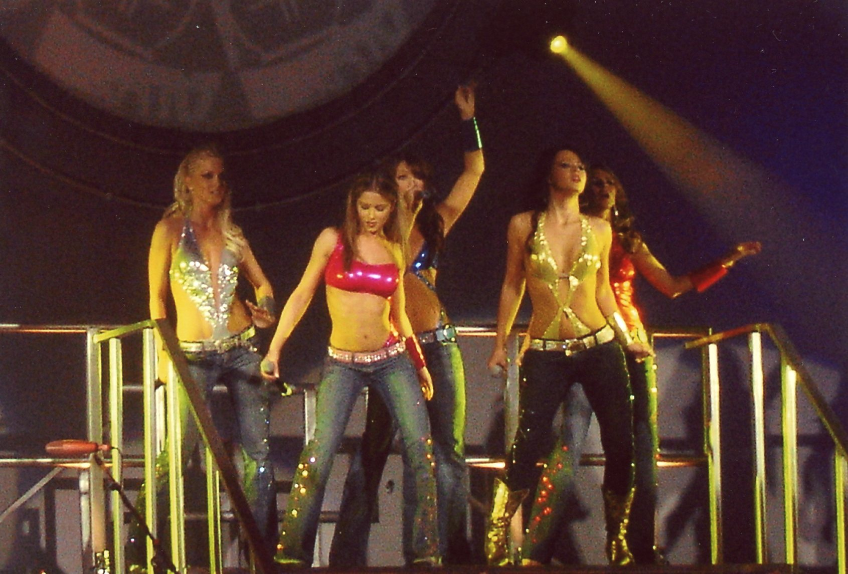 Girls Aloud - Hammersmith Apollo 290505 (3)